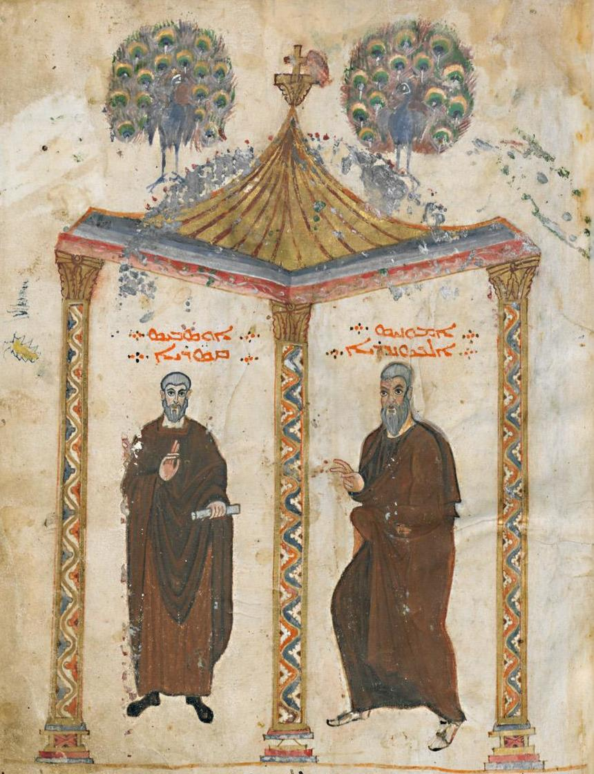 This is a portrait of Eusebius of Caesarea (with a scroll, representing his wisdom) and Ammonius of Alexandria, prefacing the letter Eusebius wrote to him in the Rabbula Gospels (6th cent. AD). This is similar to the letter and icon of Eusebius in the Gamira Gospels., where it follows the Eusebian Tables in both works.